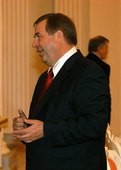 Gennady Seleznyov, Speaker of the Duma